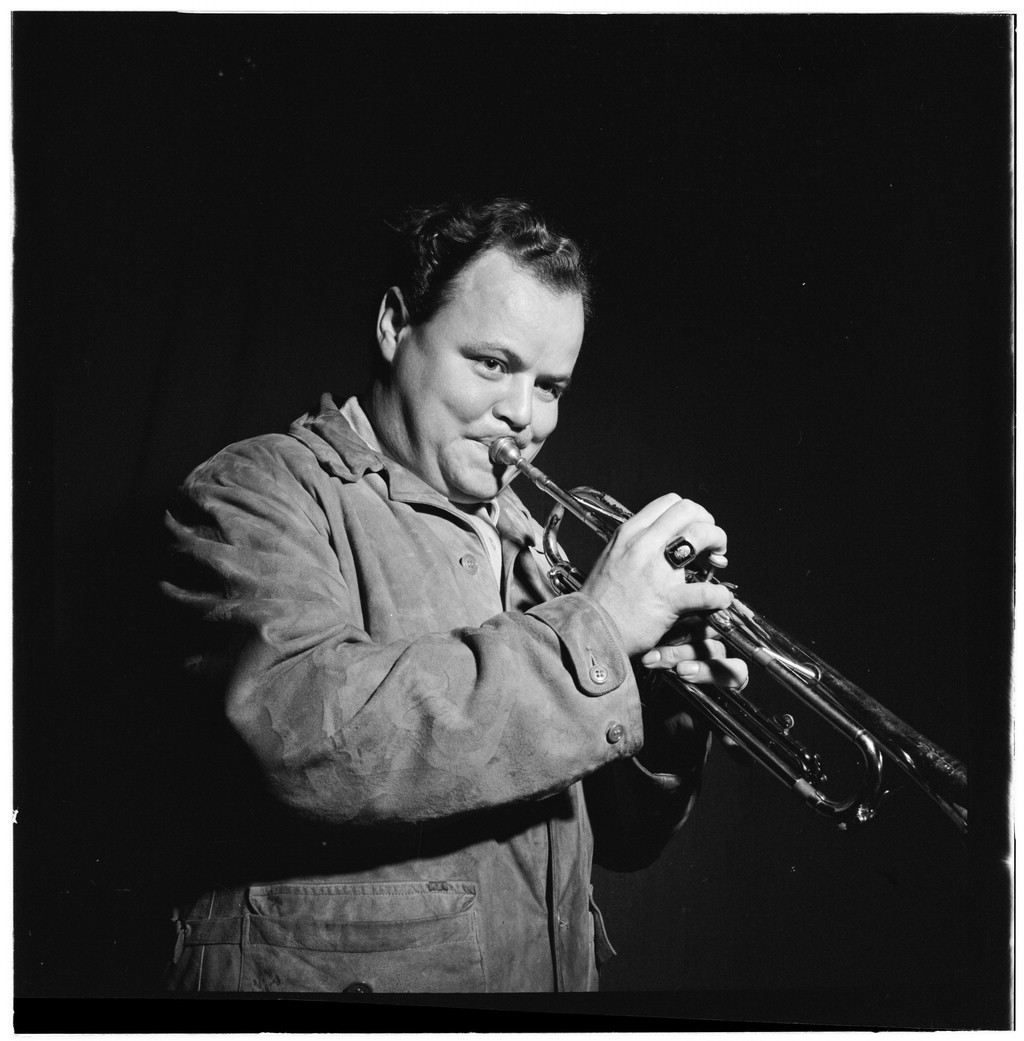 Billy Butterfield, New York